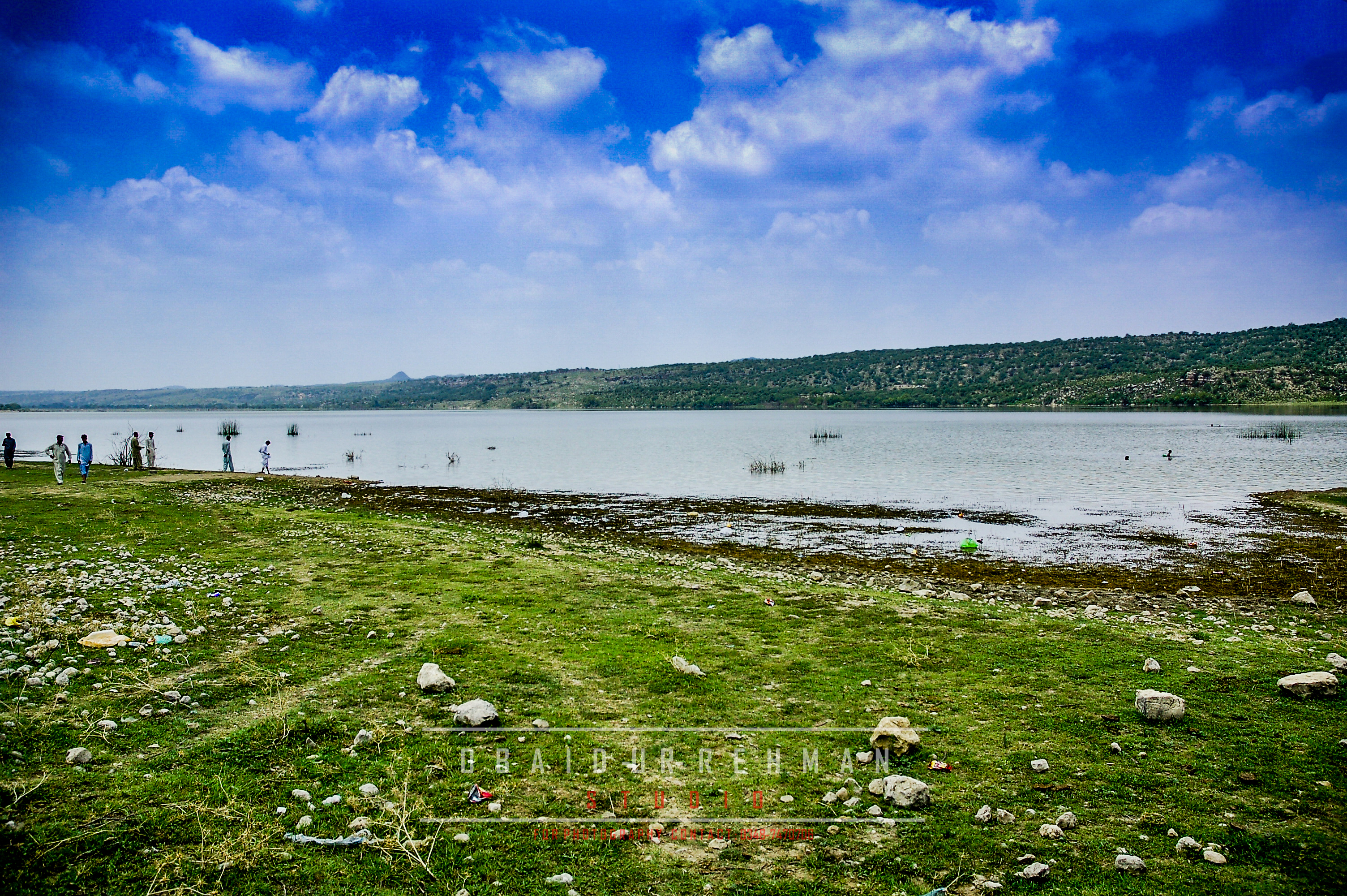 Beautiful Natural Khabeki Lake. Soon valley, District Khushab, Punjab, Pakistan.